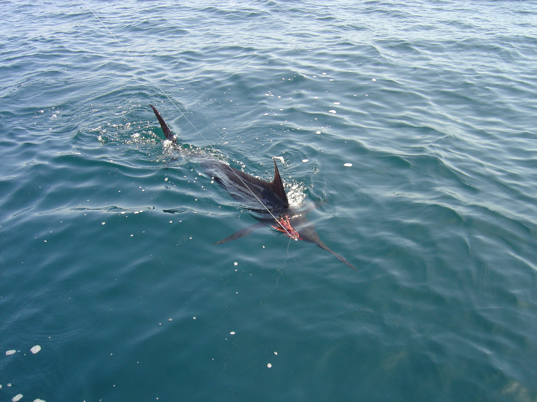 A blue marlin being caught in the Gulf of Mexico in 2004.